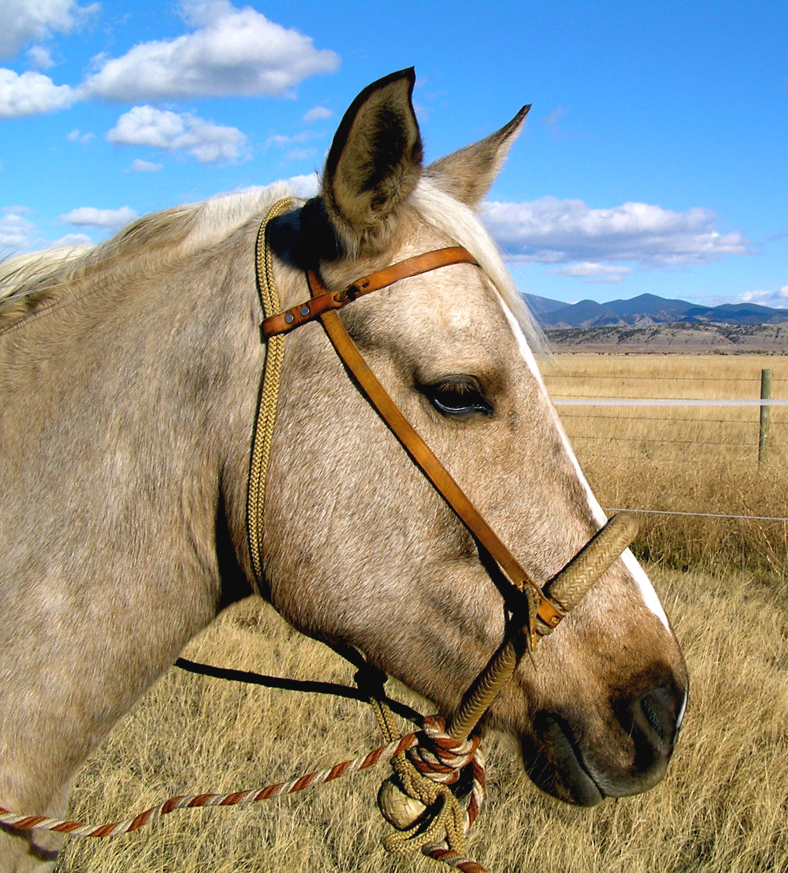 Bosal with fiador and mecate reins